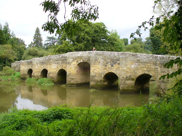 Stopham Bridge Seven-arched bridge over the Arun, built by the Barttelots in the 14th Century. The central arch was raised in 1822 so barge traffic on the Wey-Arun Navigation could pass.